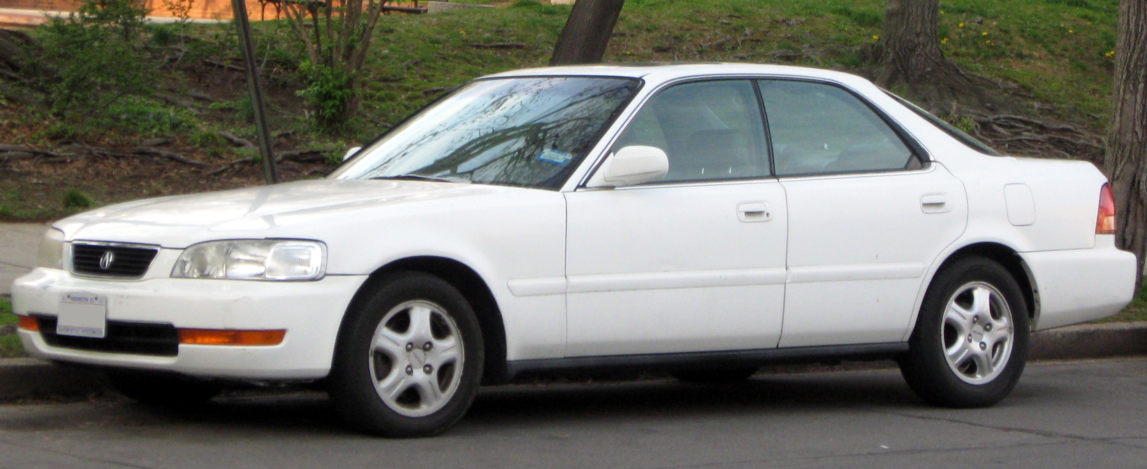 Acura TL photographed in Washington, D.C., USA.